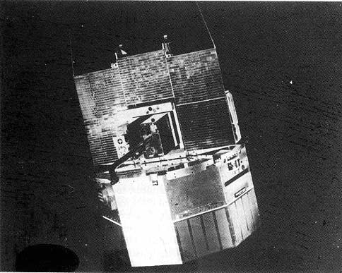 OSO-7 (Orbiting Solar Observatory 7)